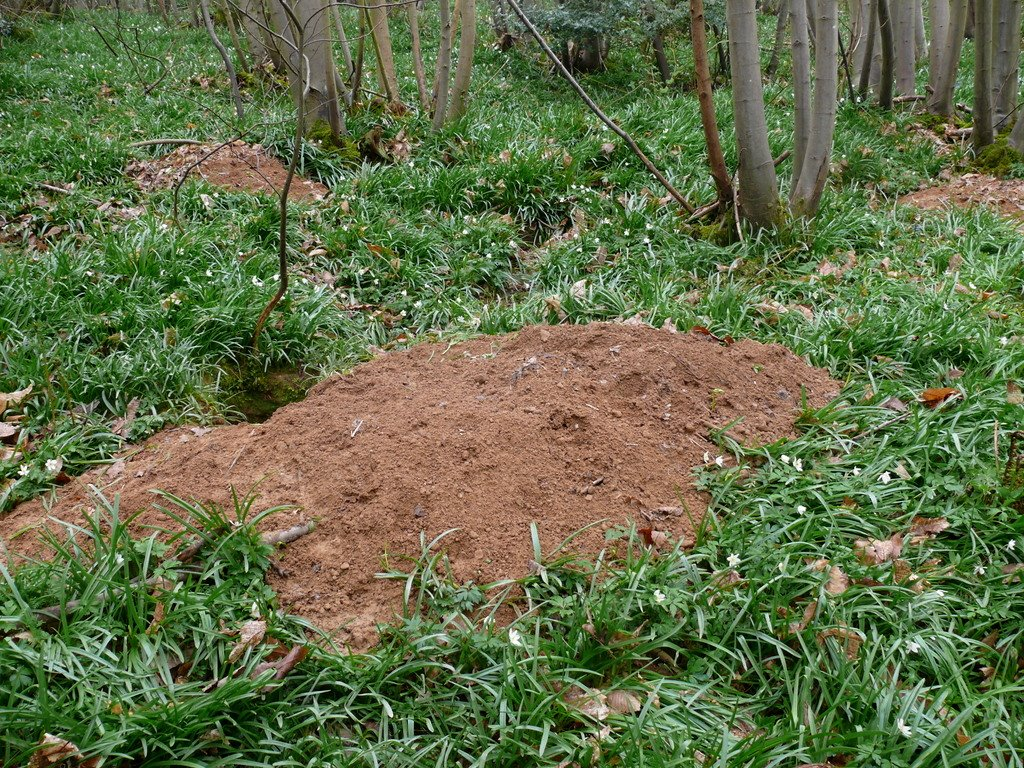 Well drained sandy soil.